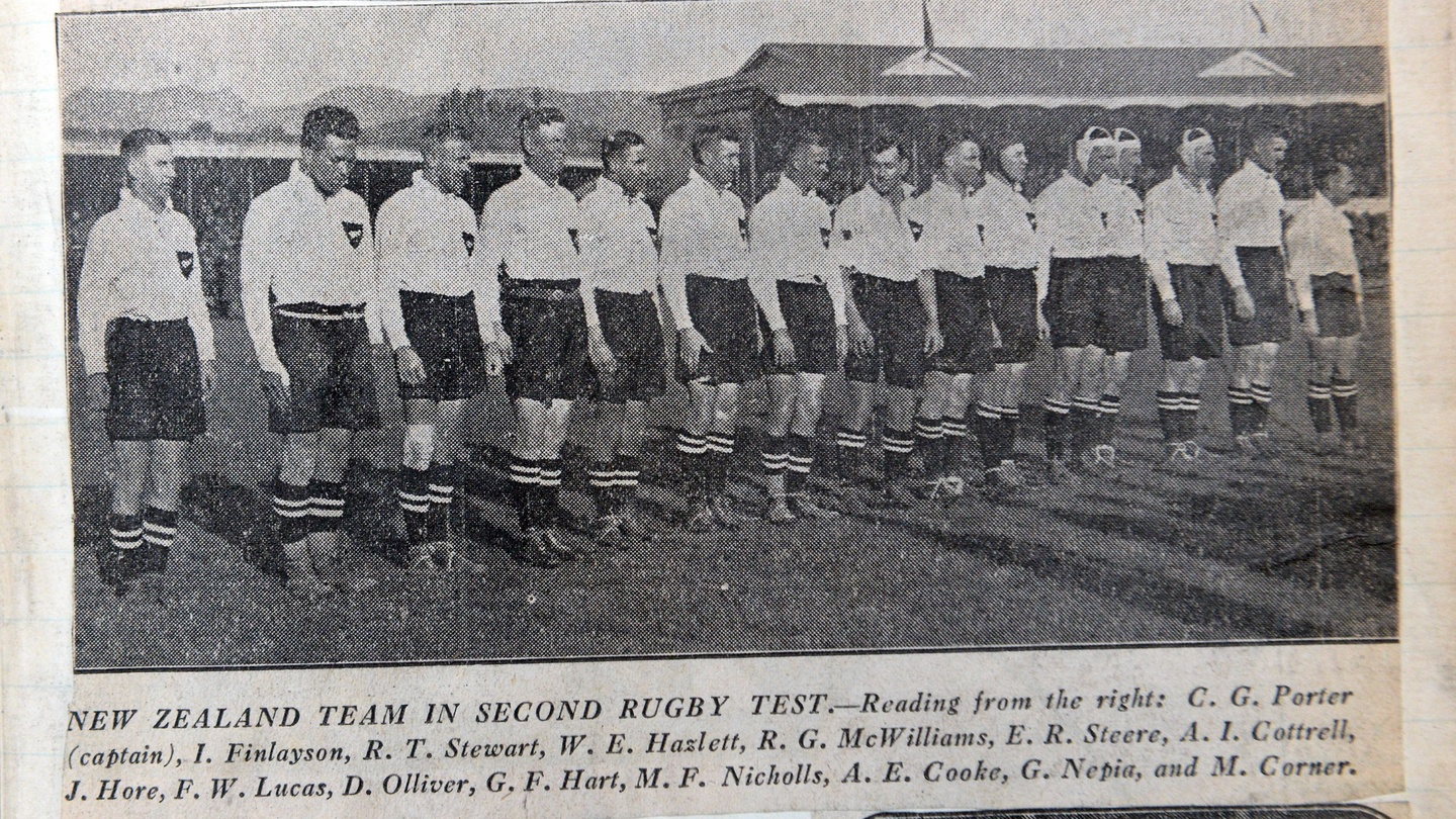 The All Blacks team (wearing white shirts) that played the 2nd test v the British Lions